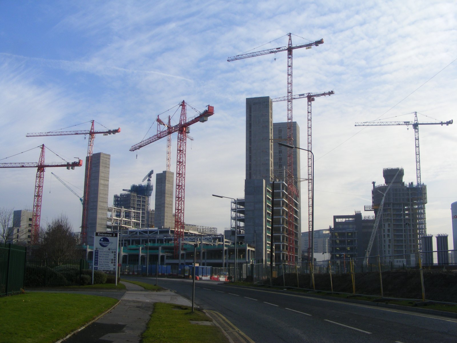 Cranes at the BBC Media City site, Salford Quays.